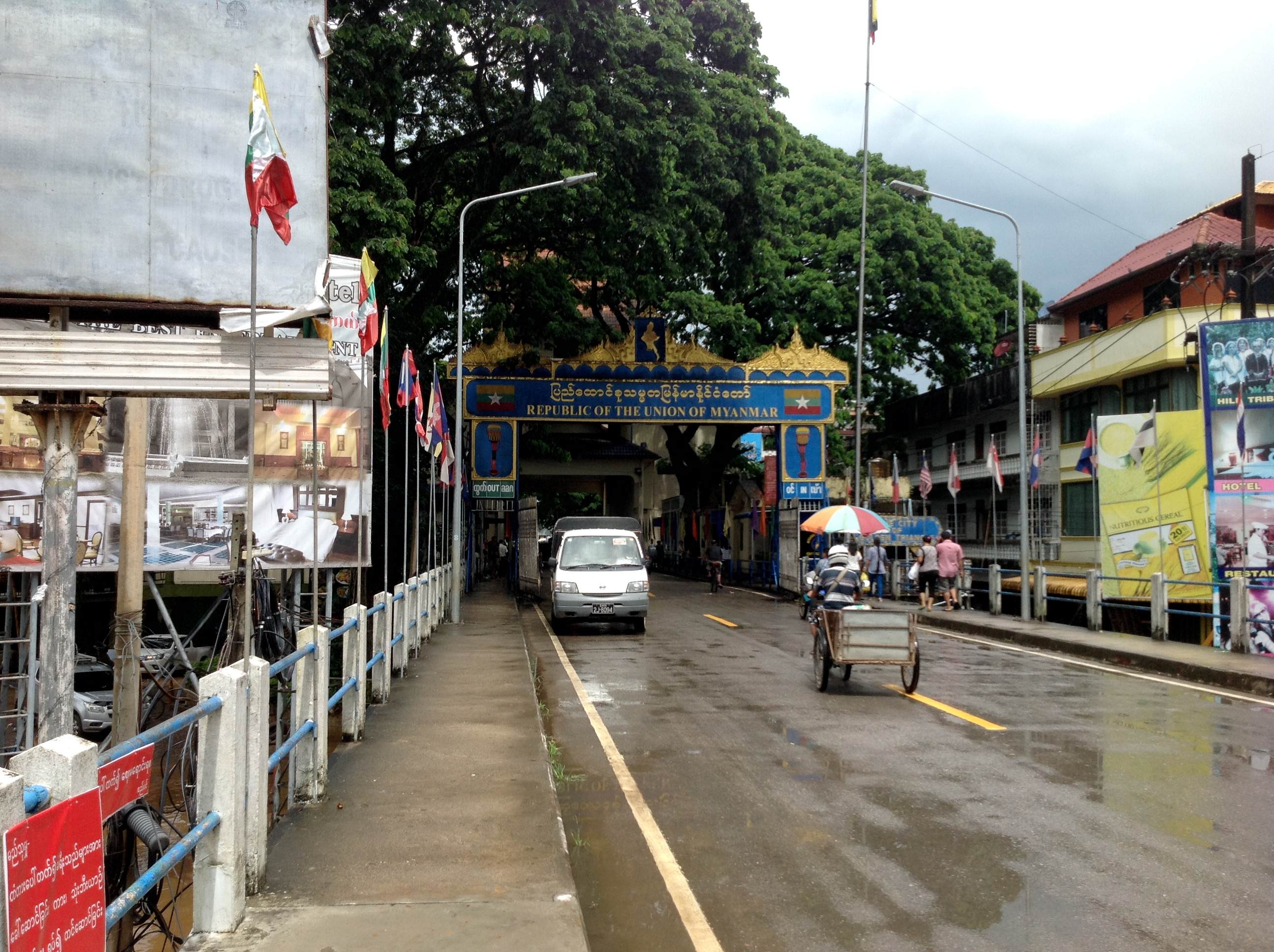 Entrance into Tachileik from Mae Sai.